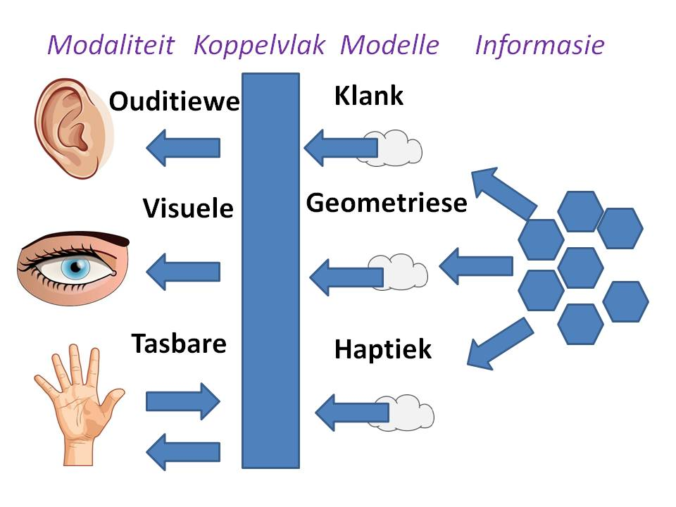 Human Machine Interface